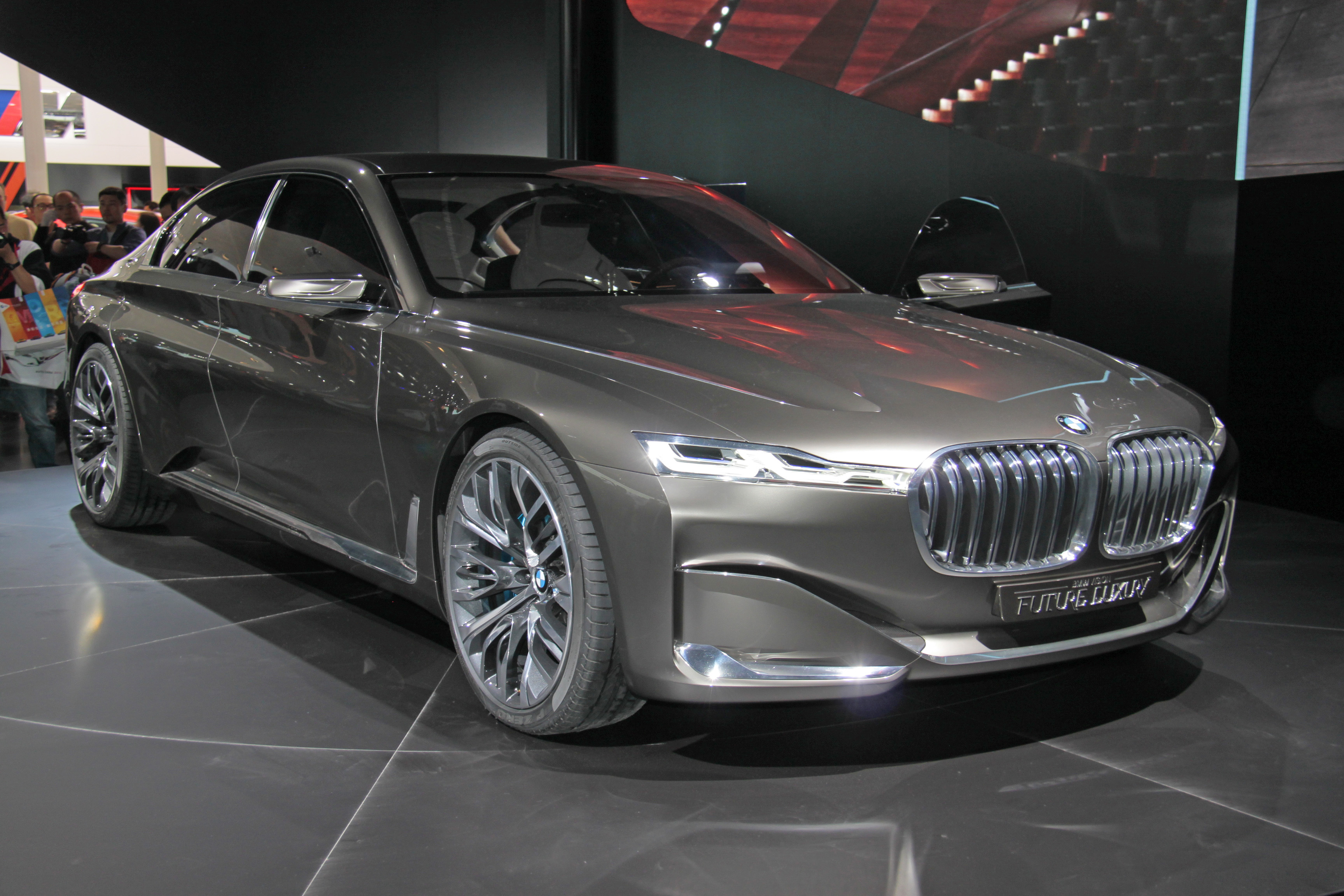 BMW Vision Future Luxury concept at Auto China 2014 (Beijing)